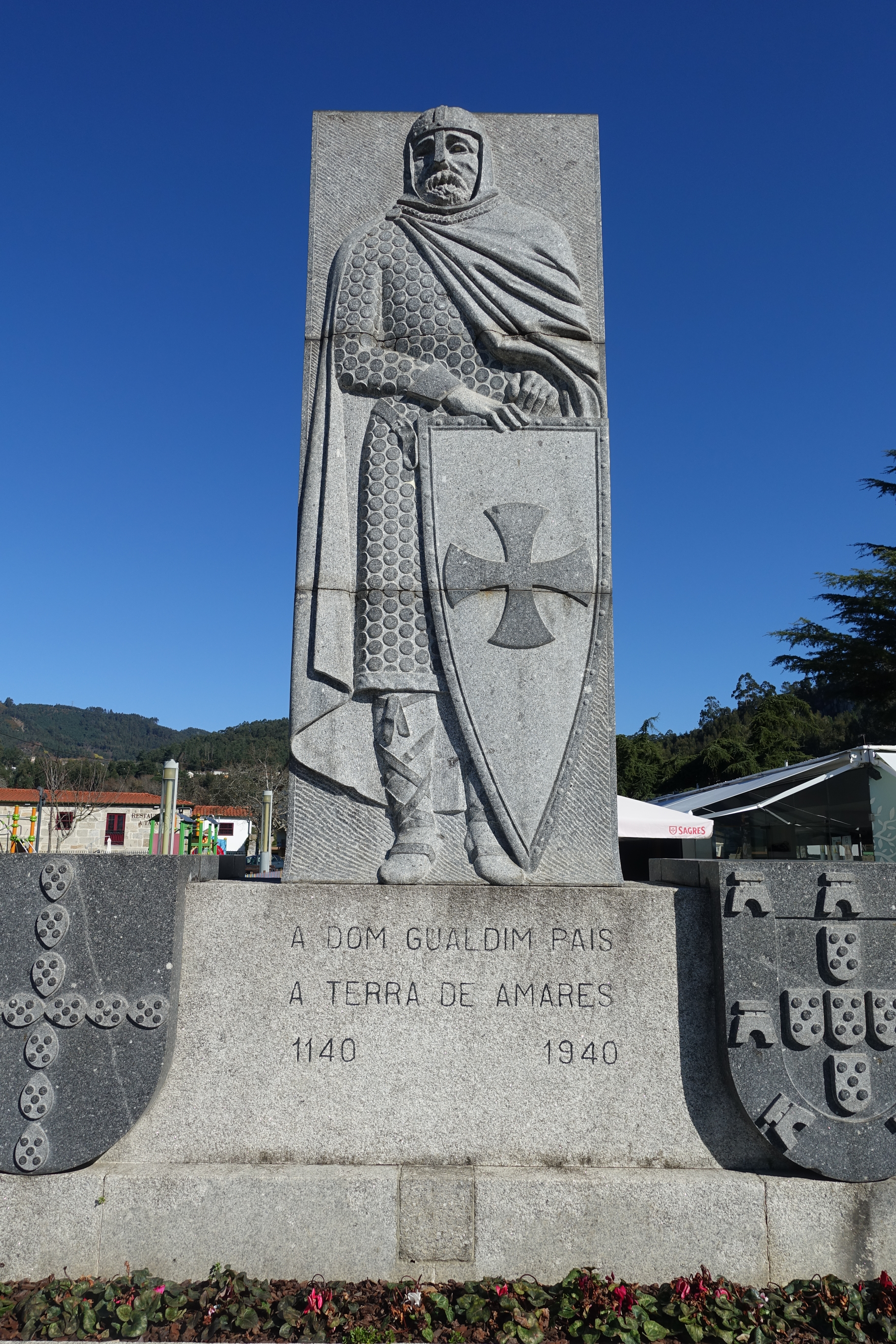 Amares, Portugal.